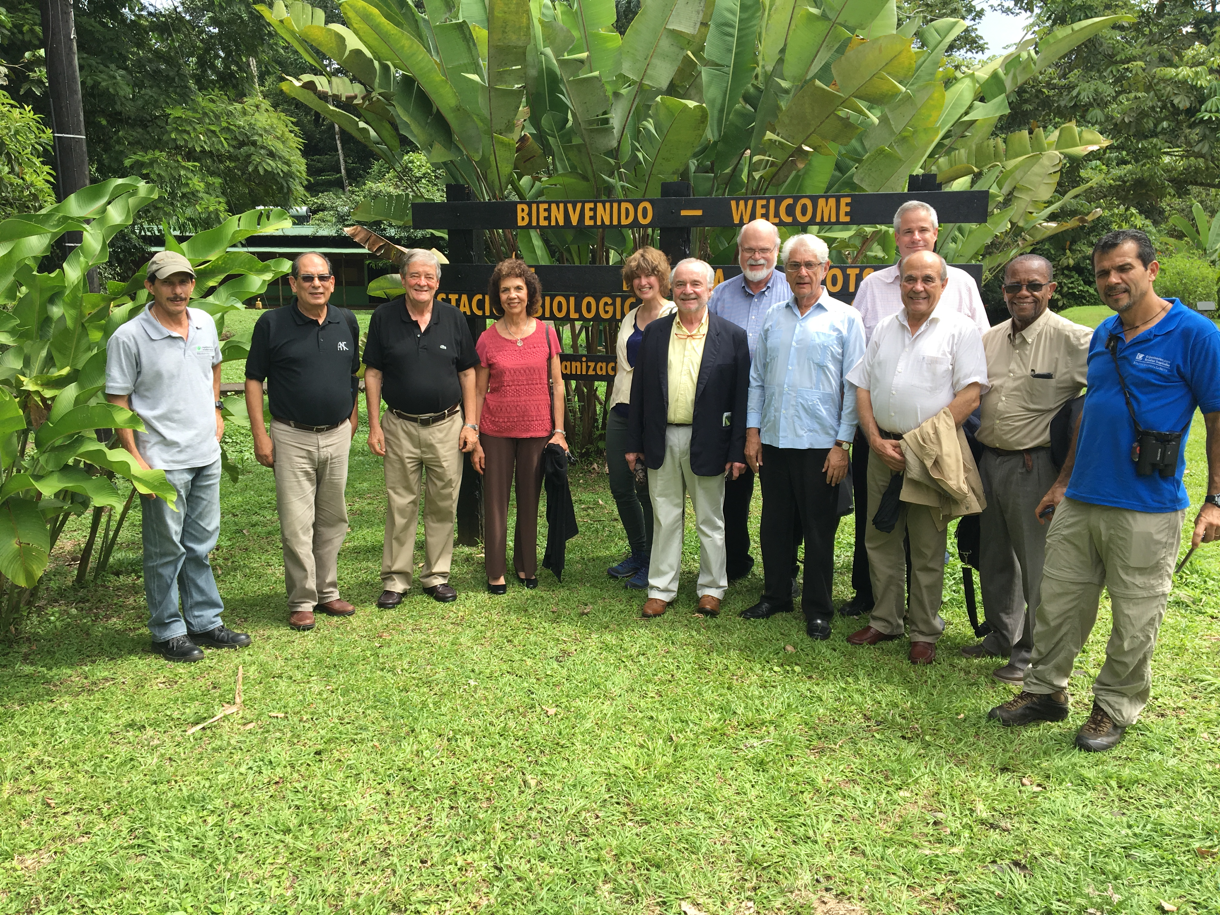 The 2017 meeting of the IANAS Executive Committee, on an outing to the biological research station La Selva in Costa Rica